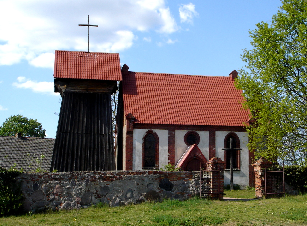 Church in Lubowo, (Stargard County), Poland